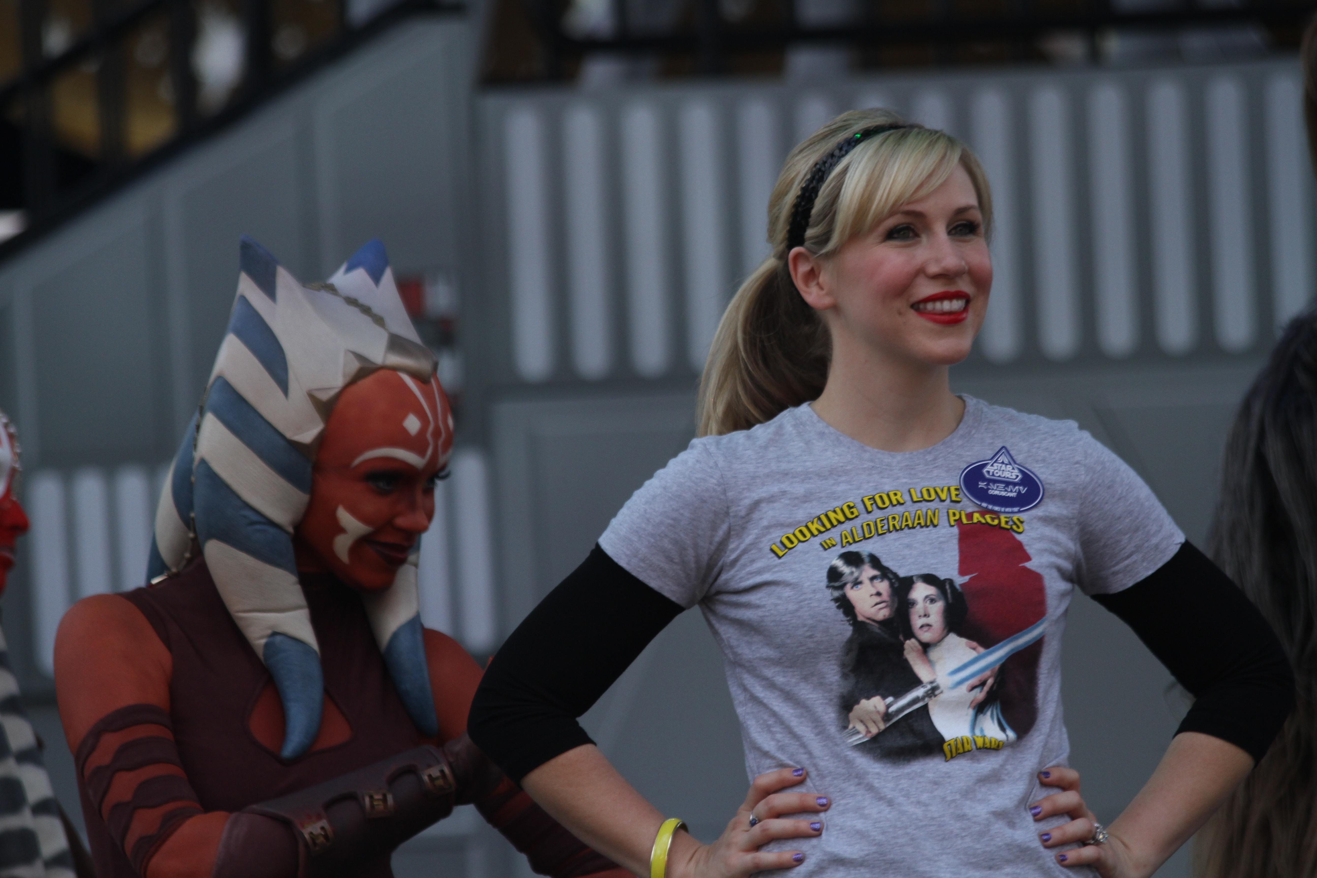 Ashley Eckstein with Ahsoka, a Disney park character based on a Star Wars: Clone Wars character that she voices.